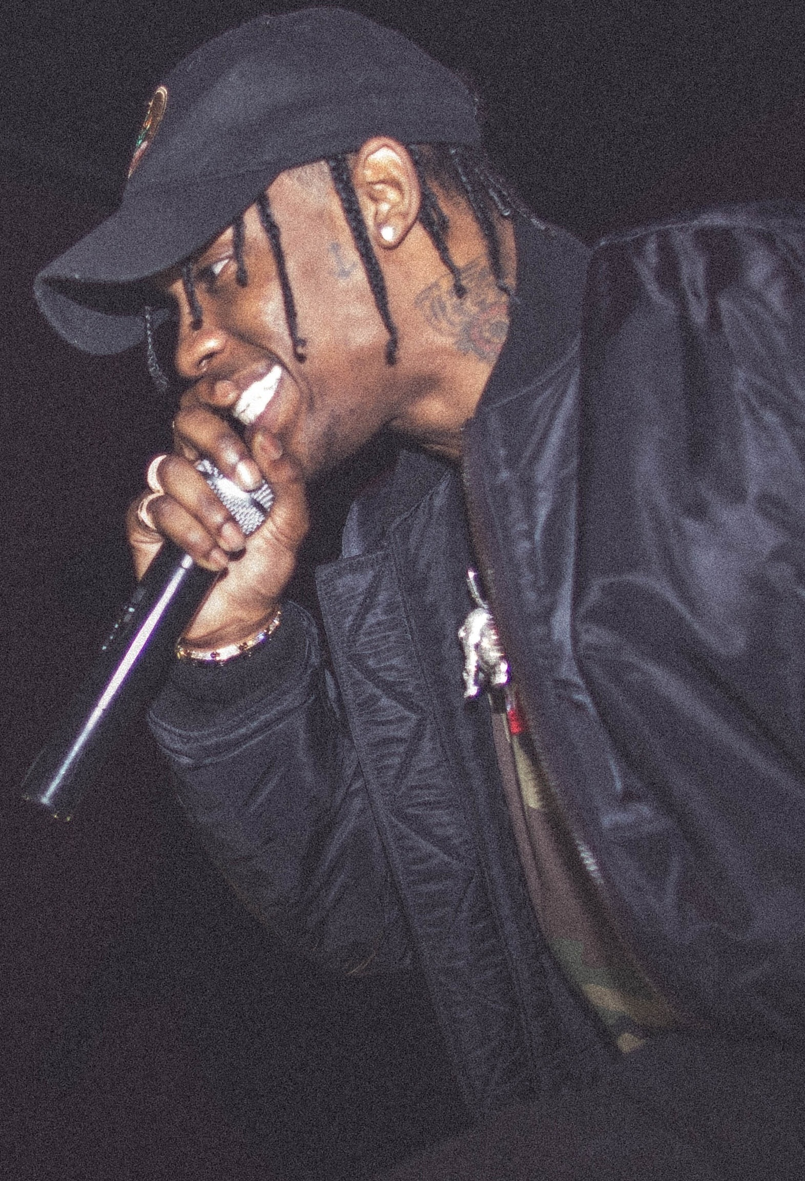 Travis Scott performing in February 2016